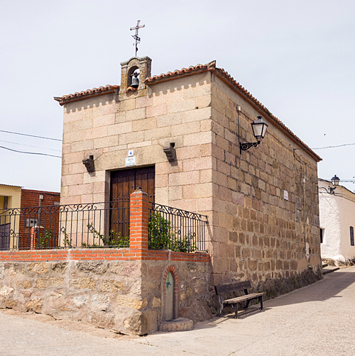 Ermita de Santa Ana